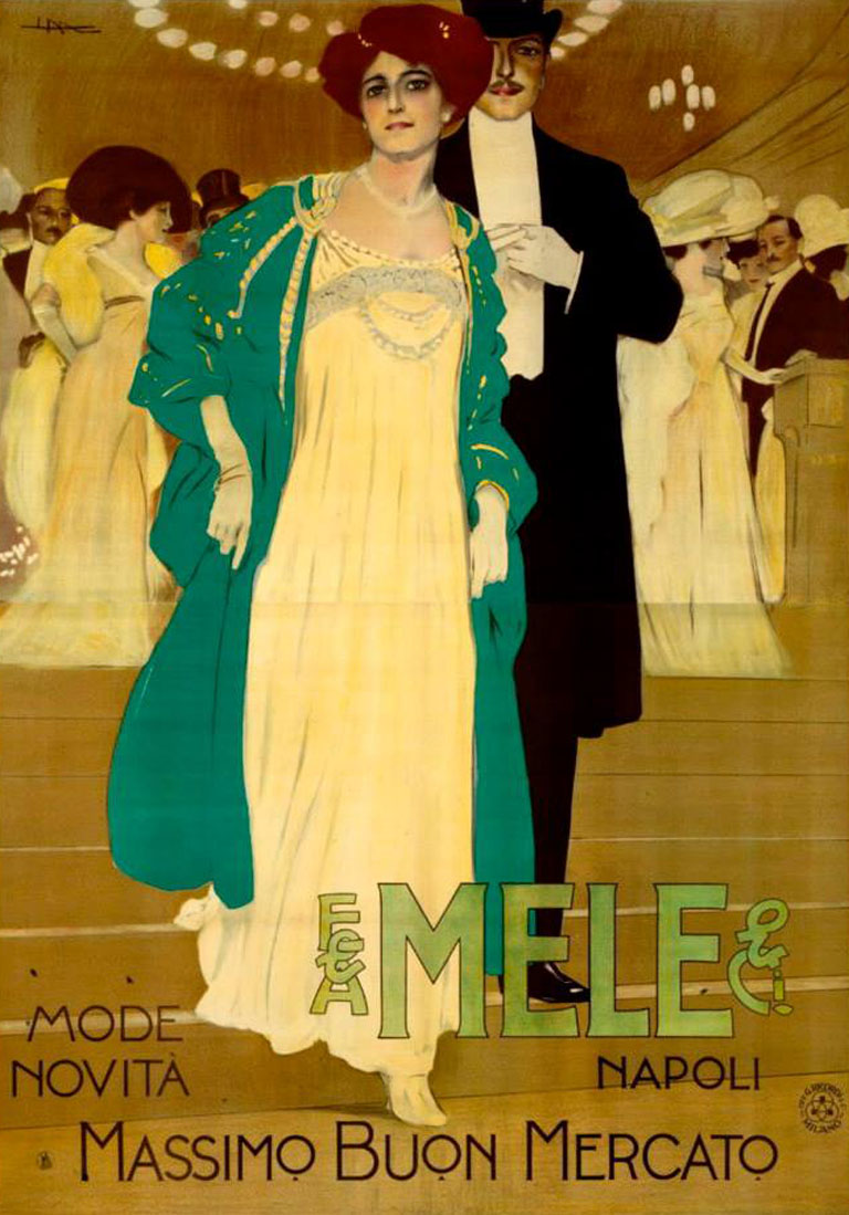 Poster by Leopoldo Metlicovitz.